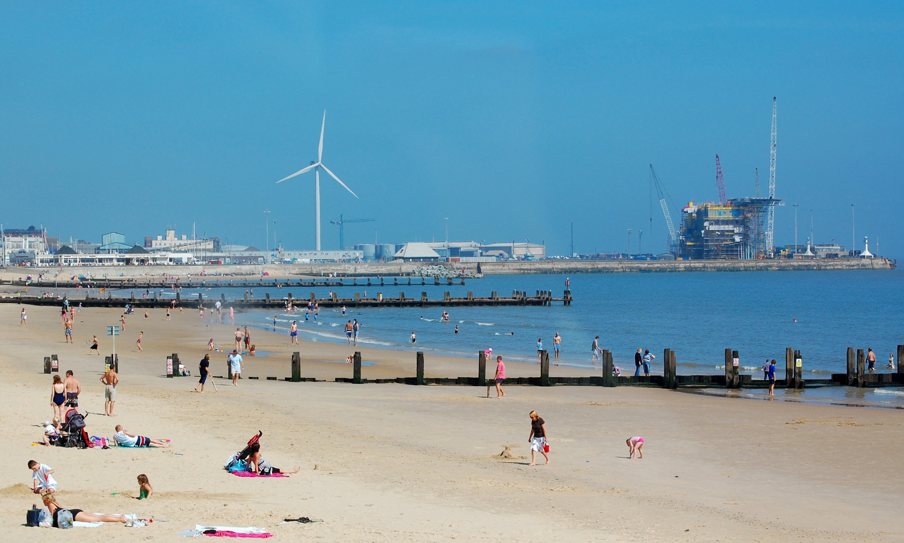 Lowestoft seafront showing the beach and the outer harbour with wind turbine and gas rig.